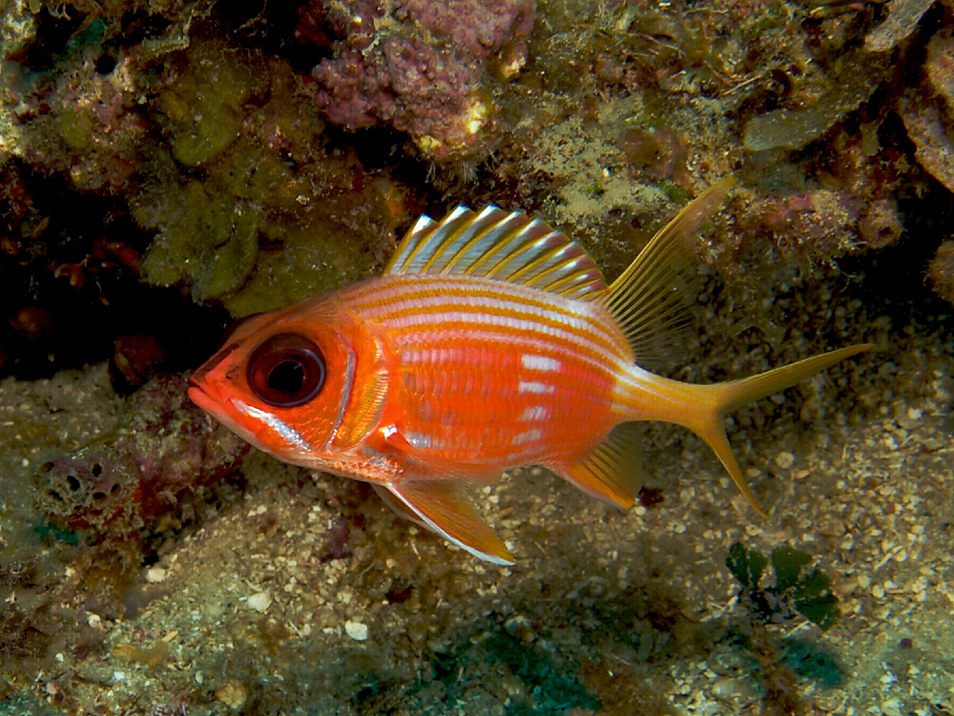 Holocentrus rufus (Longspine Squirrelfish)